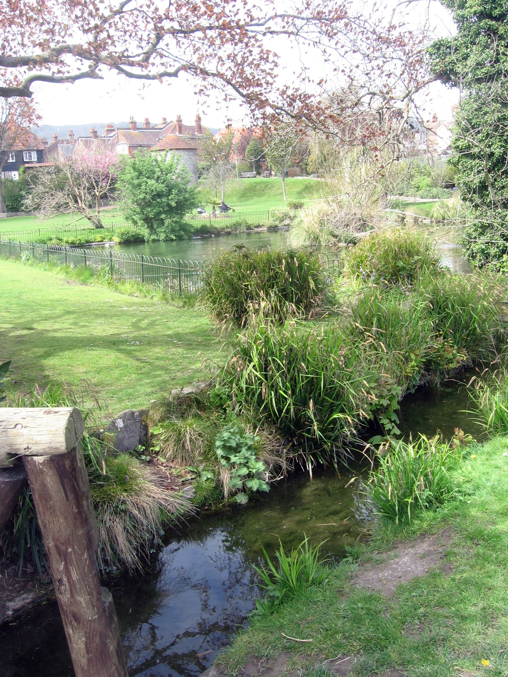 The river Bourne running through Motcombe Gardens in Eastbourne.